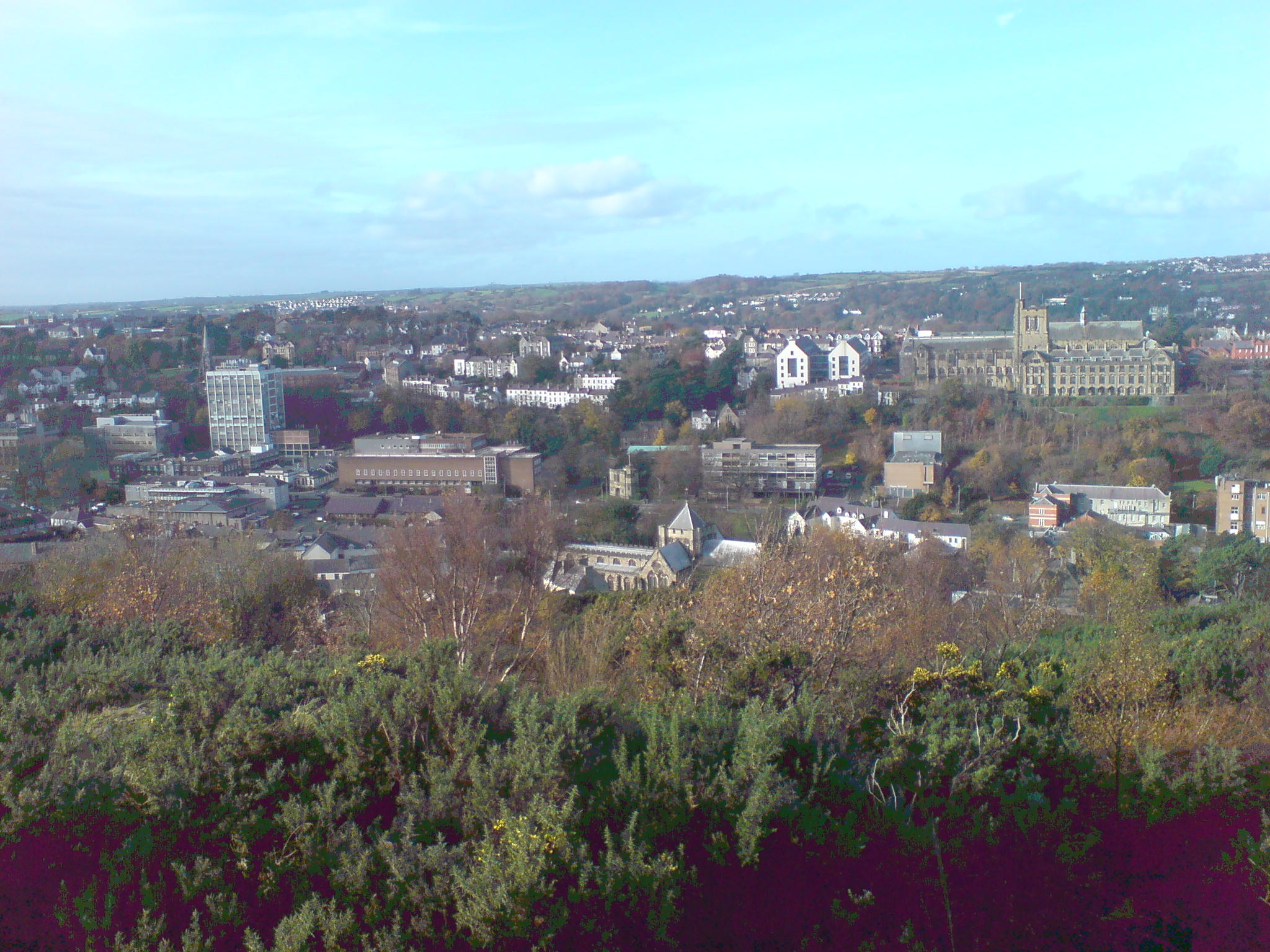 Panorama of Bangor, North Wales, UK.